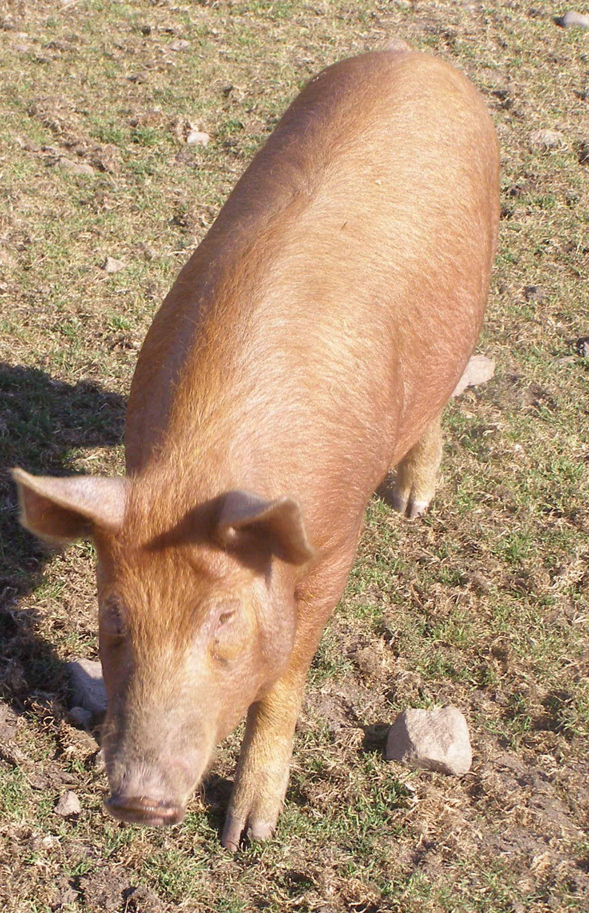 Tamworth pig, Aberdeenshire, Scotland July, 2006 I took this photo and release all rights